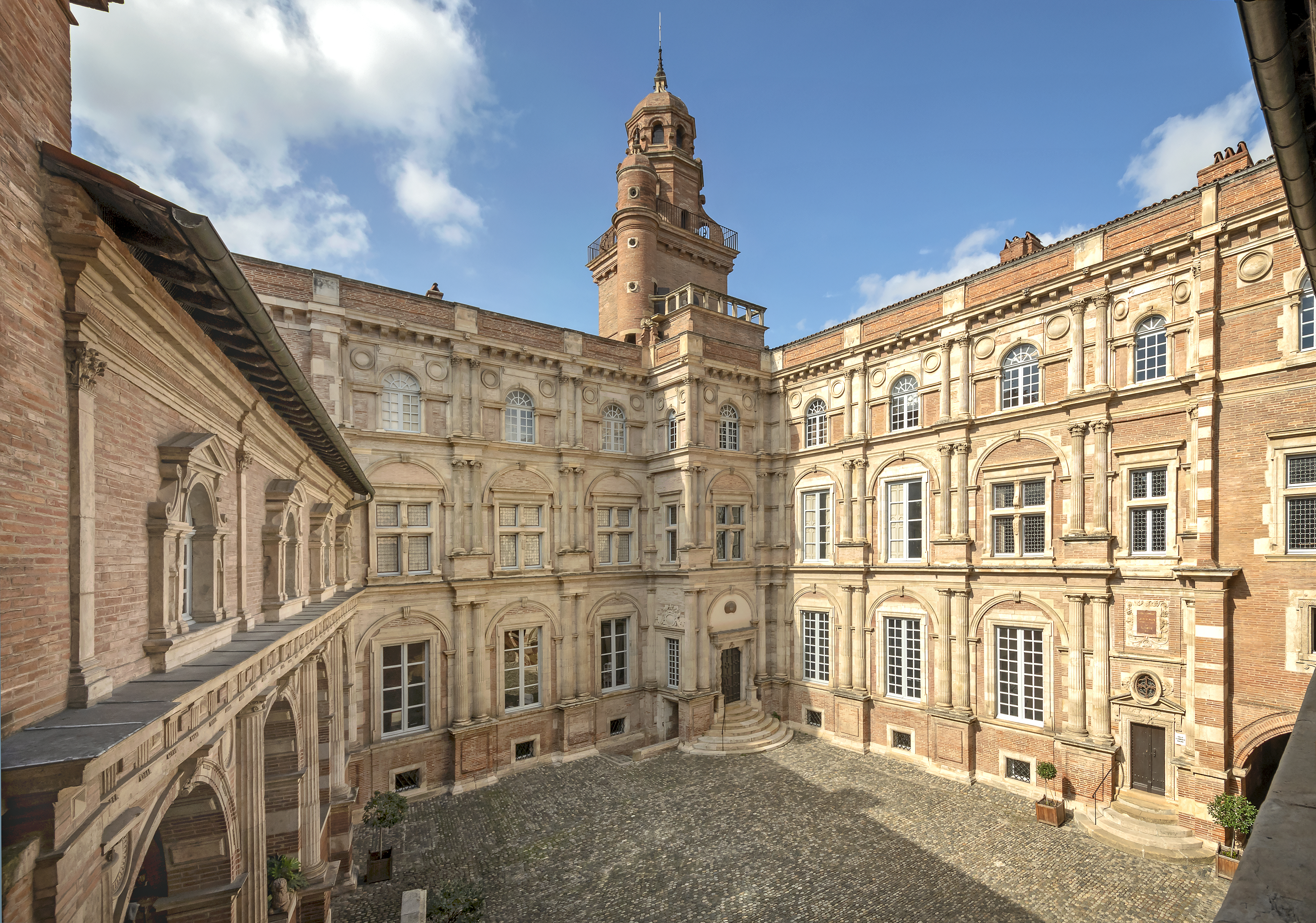 Hôtel d'Assézat in Toulouse; The inner courtyard.